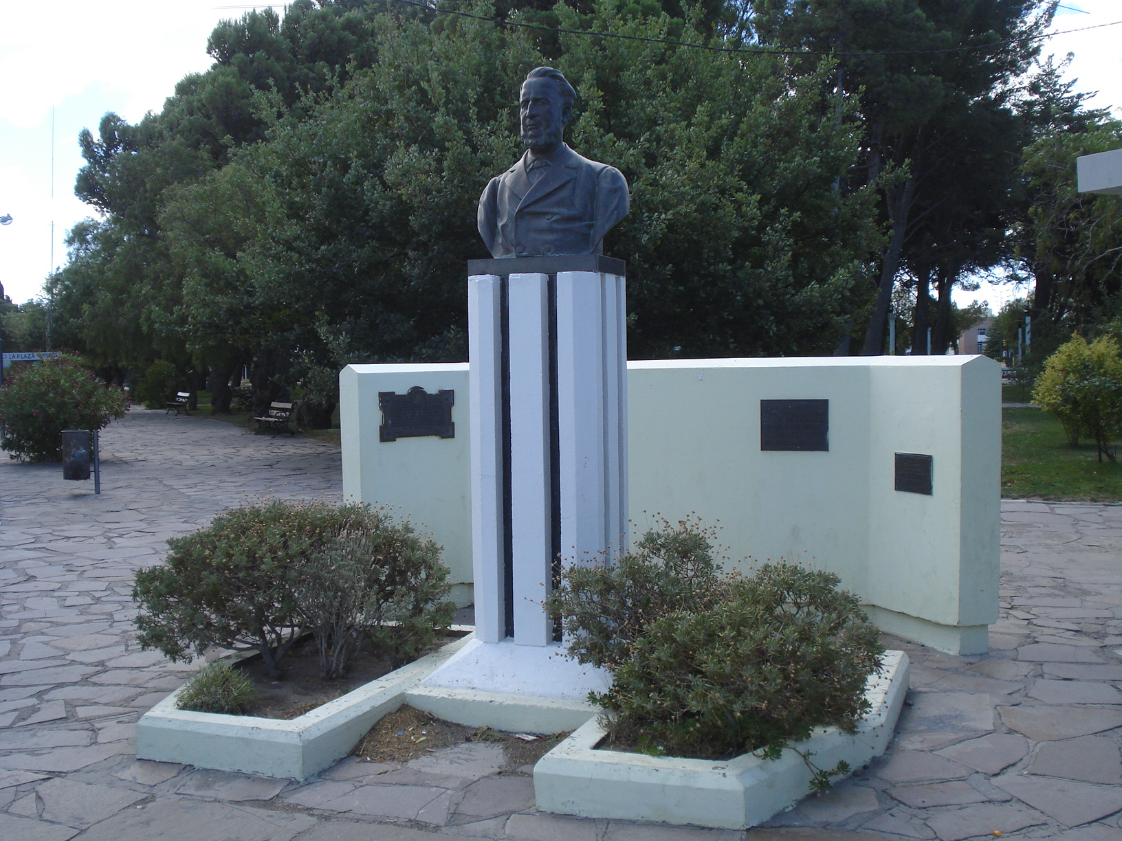 Bust of Guillermo Rawson (1821-1890) in Rawson, Chubut, Argentina. It was installed the October 12th of 1936, in the city's central square.